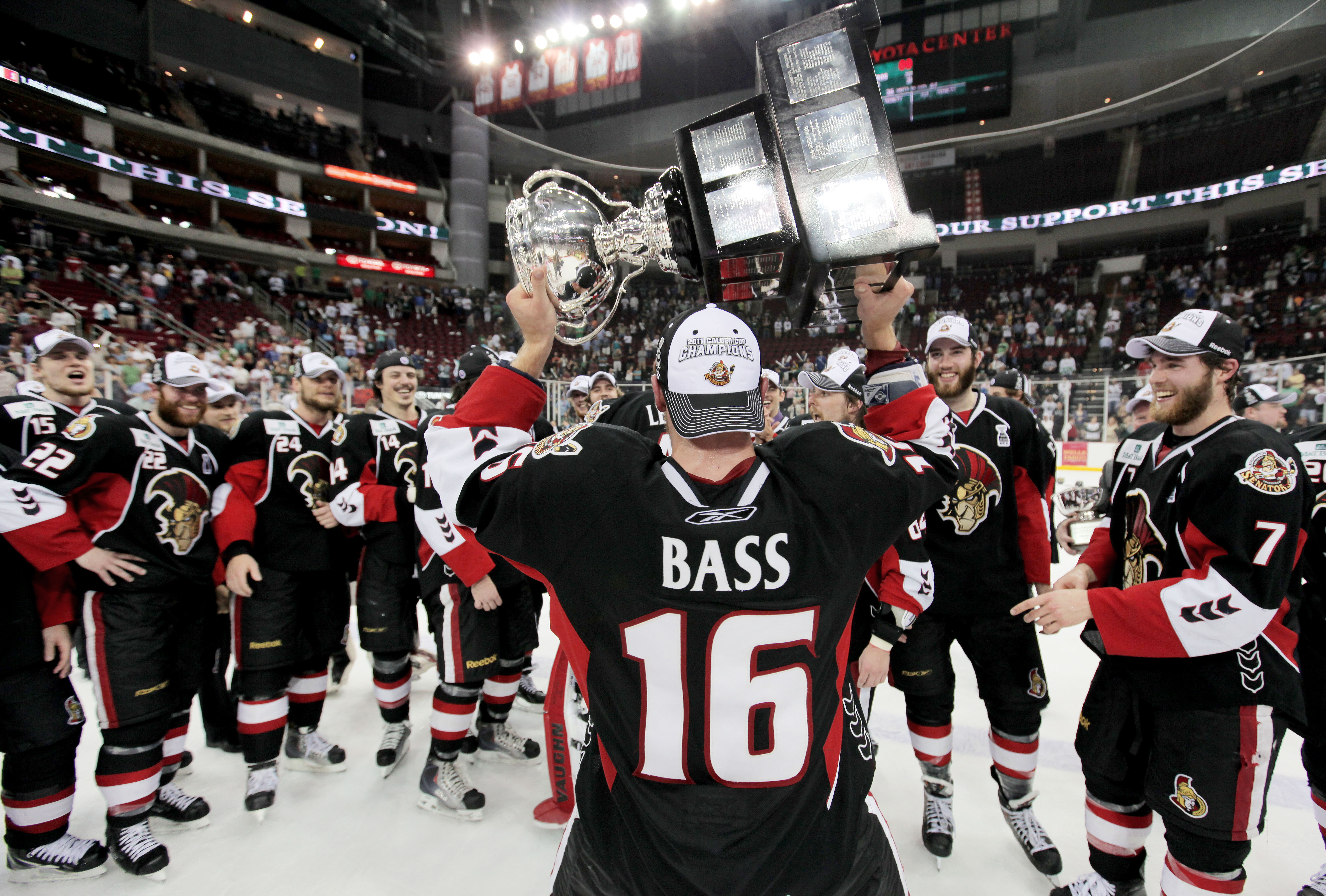 Binghamton Senators' Cody Bass lifts the Calder Cup after game six of the AHL Calder Cup Finals, Tuesday, June 7, 2011, in Houston. Binghamton won 3-2 to win the championship. (Darren Abate/pressphotointl.com/AHL)